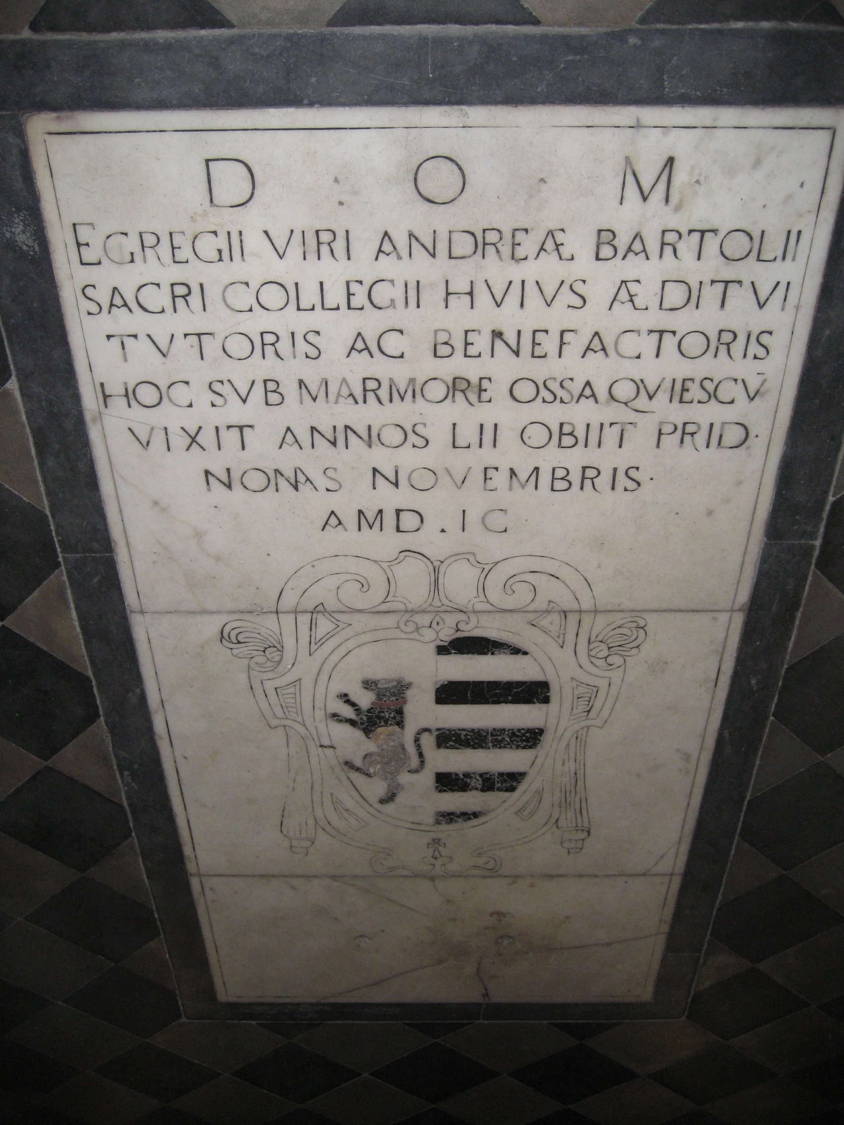 1599 gravestone for Andrea Bartoli, founder of "Opera Pia Bartoli", a charitative foundation for young poor girls in Montevarchi.